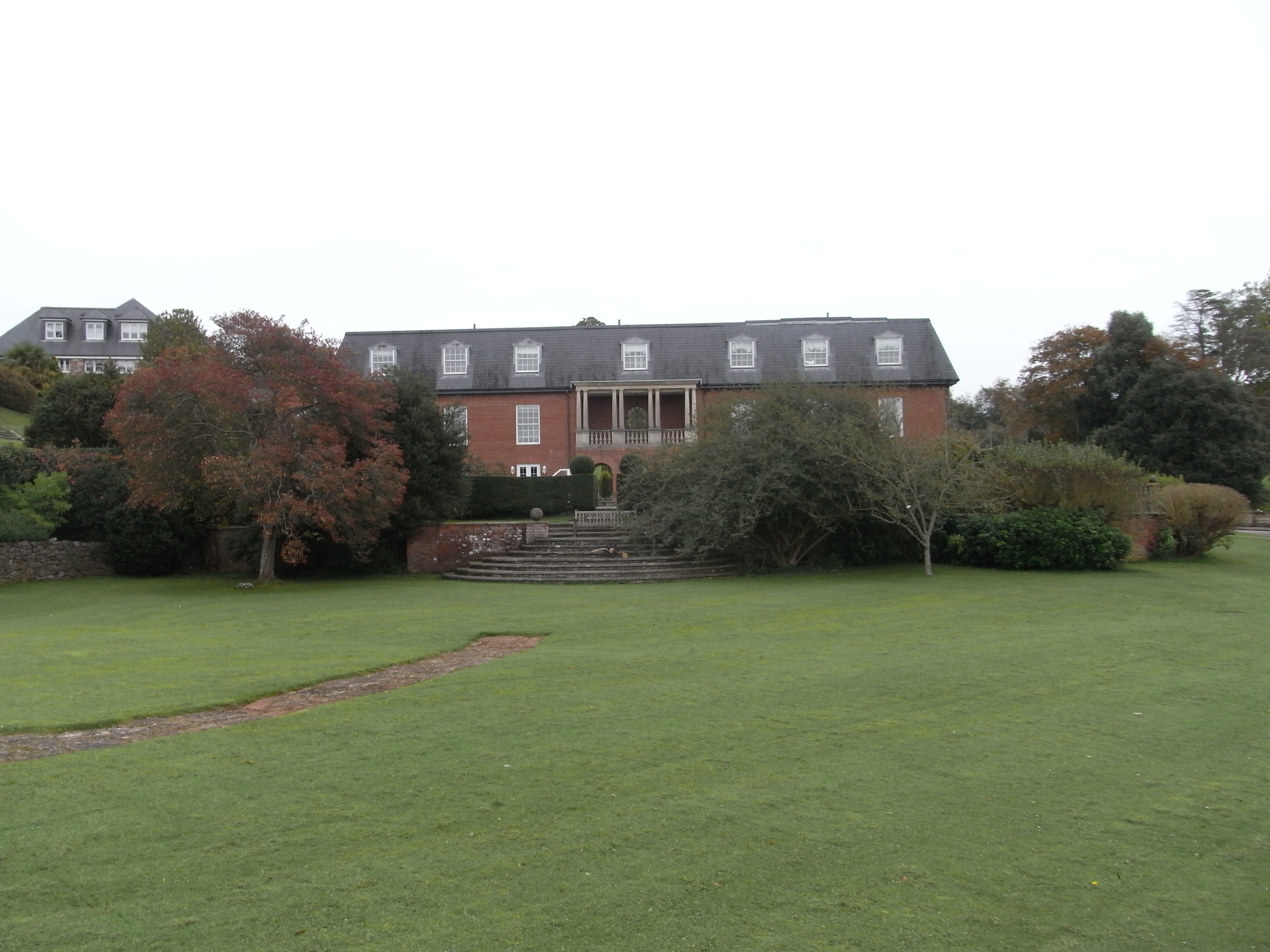 View of west front of 1960's pastiche Lindridge House housing development on site of 17th.c. mansion "Lindridge House" destroyed by fire in 1960's